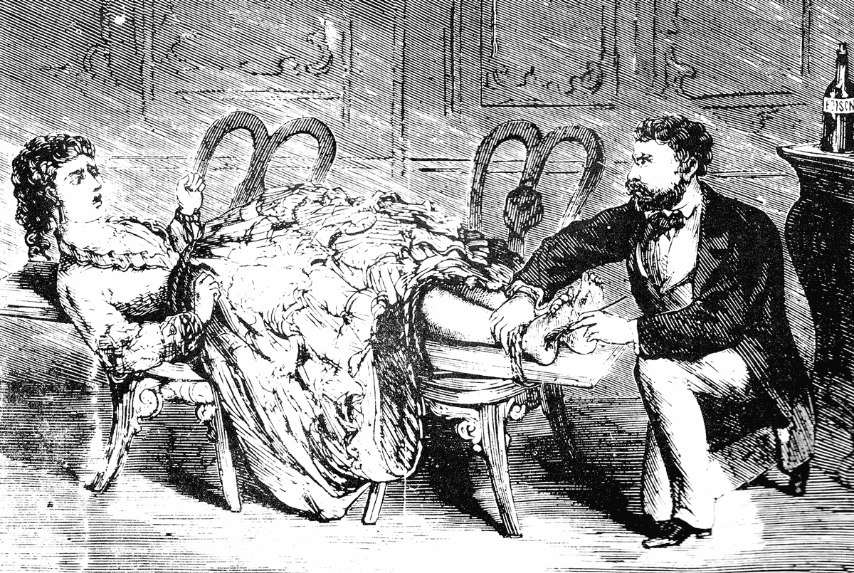 Illustration from Illustrated Police News